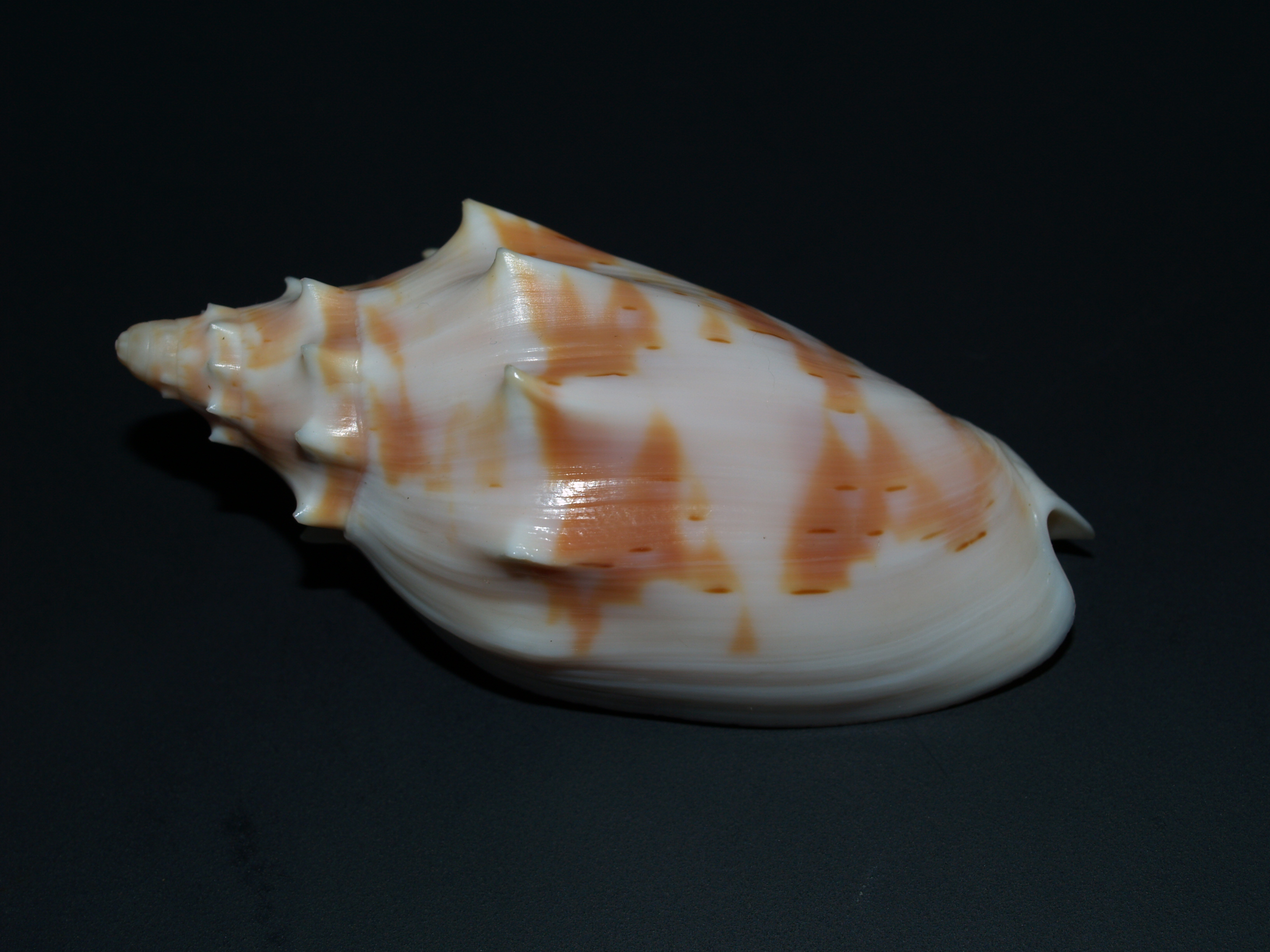 photo of gastropod shell Cymbiolacca pulchra wisemani from Keeper Reef